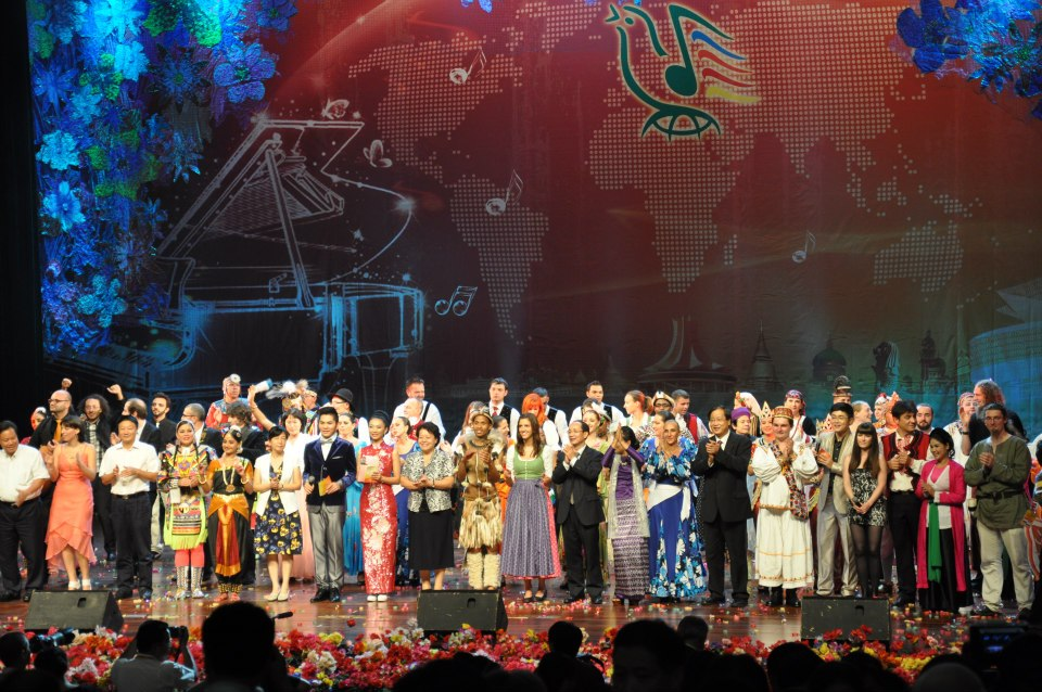 HE Nob. Ionuţ Silaghi de Oaș at Nanning International Folk Song Art Festival 2012, CAEXPO 2012, China